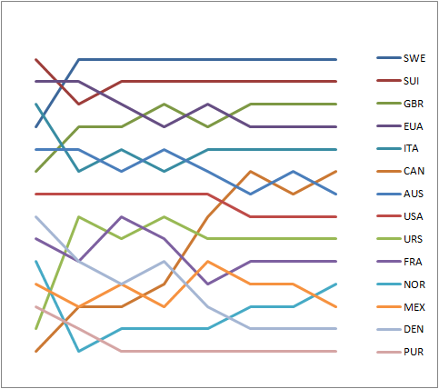 1968 Olympic Sailing Daily Standings